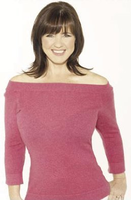 Dartford Living June 2009 Front Cover featuring Coleen Nolan